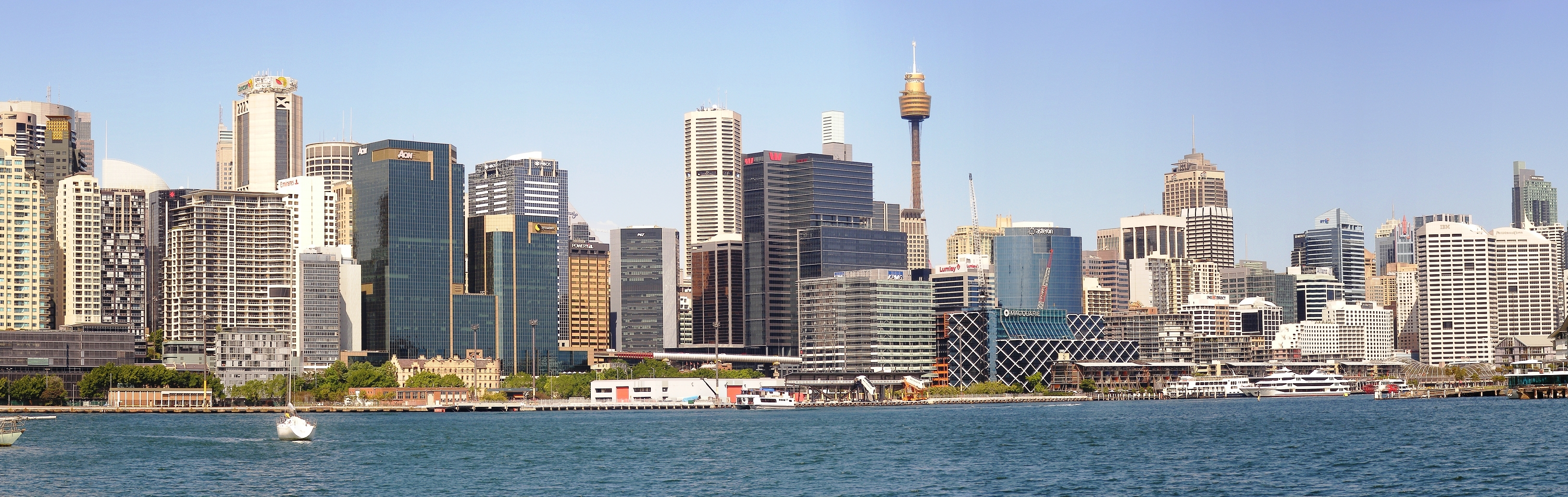 Sydney